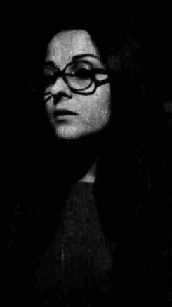 Italian actress Gianna Giachetti